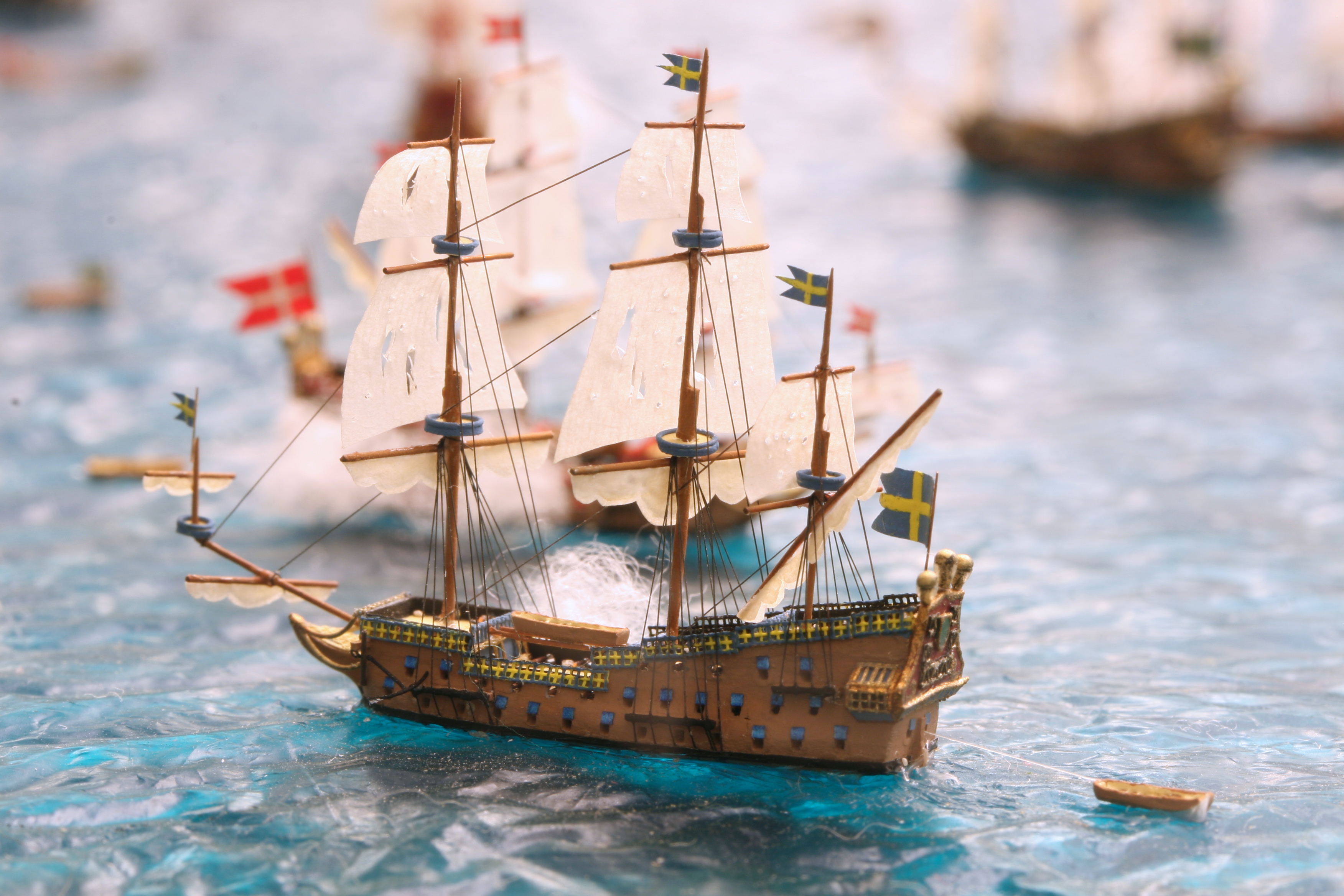 Orlogsmuseet, The Royal Danish Naval Museum in Copenhagen. Tiny model of ship. Miniaturemodel af orlogsskib.